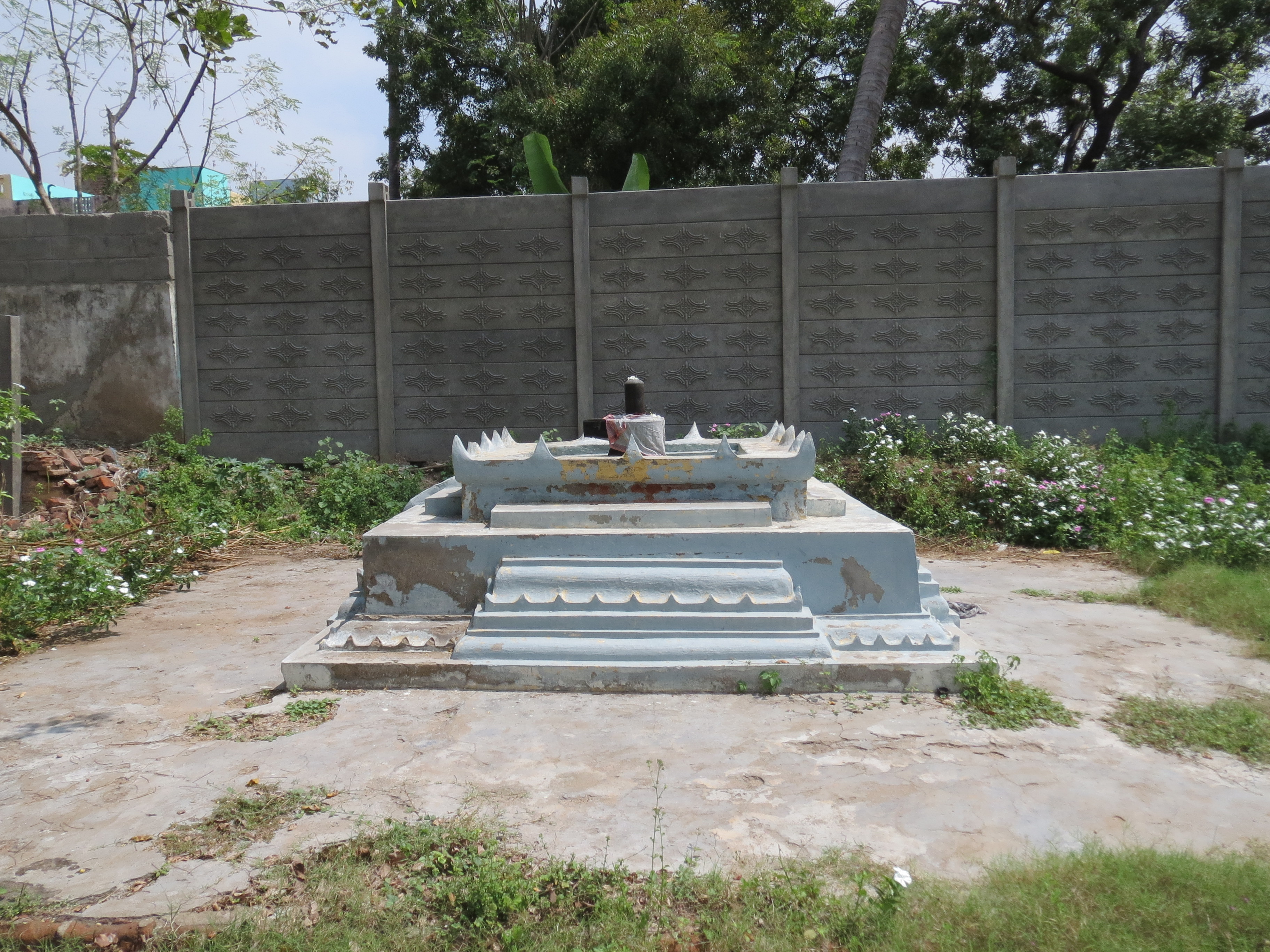 Darasuram veerabadrar temple-Ottakoothar Samadhi